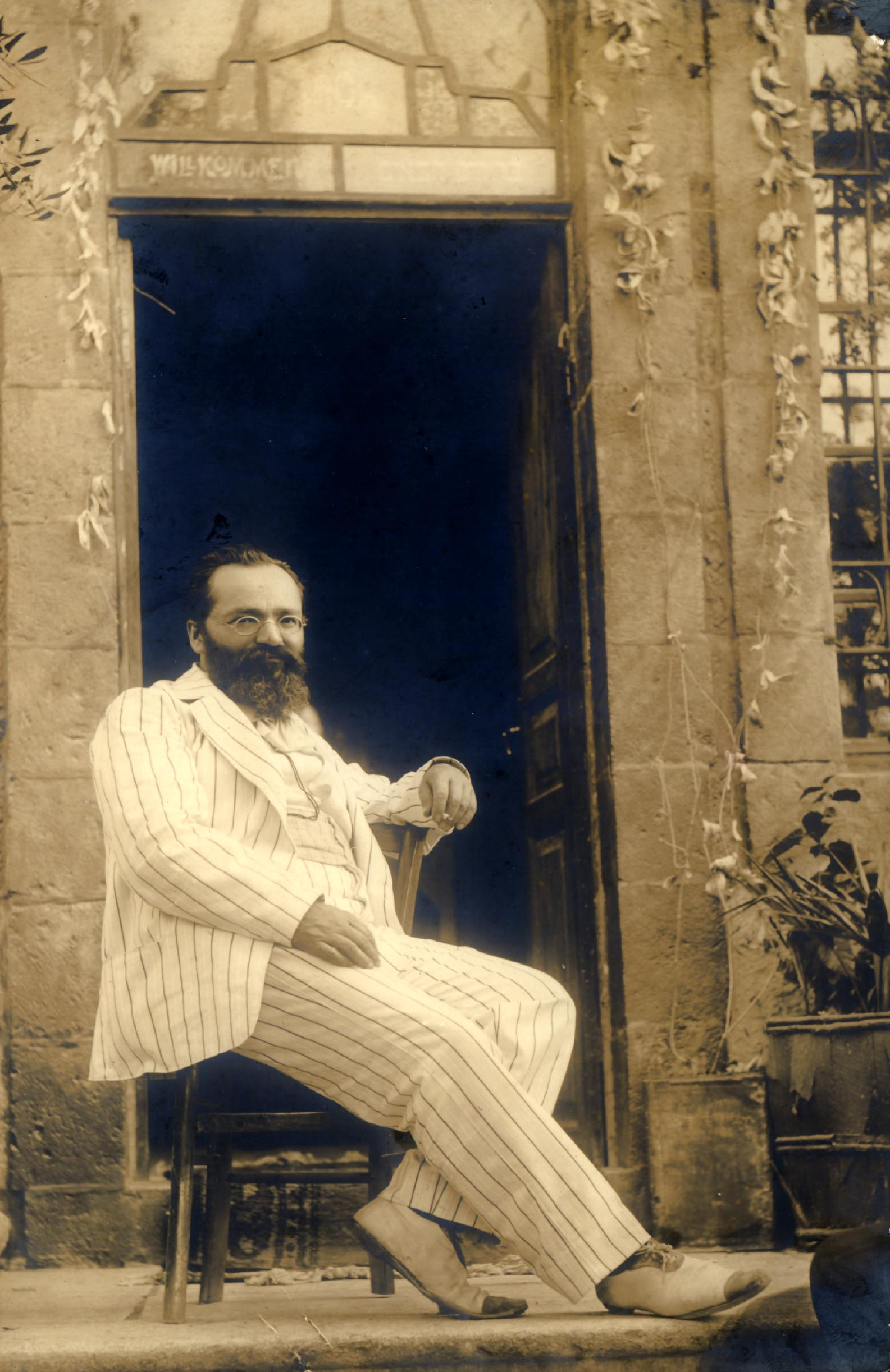 boris schatz sitting in the entrance of the bezalel art school, aprox 1920